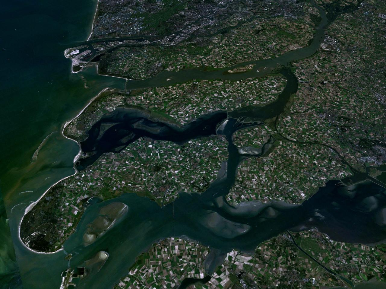 Zeeland, the Netherlands. Aerial view generated in Nasa World Wind consisting of satellite imagery.